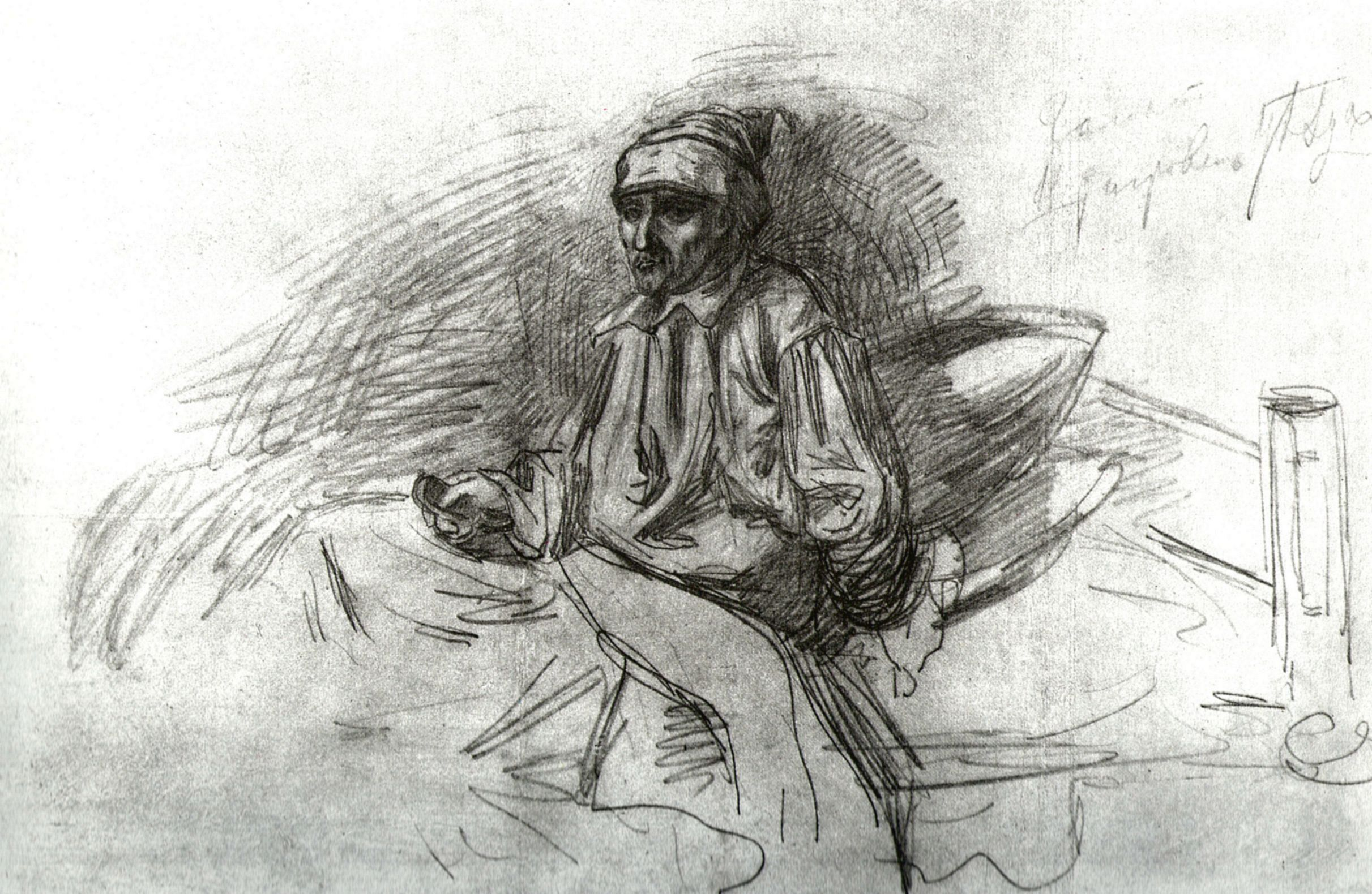 The portrait of the anonymous character of the short story The Hamlet of the Shtchigri District by Ivan Turgenev (from the collection A Sportsman's Sketches). “ ‘Let me at least know,’ I asked, ‘with whom I have had the pleasure...’ He raised his head quickly. ‘No, for mercy’s sake!’ he cut me short, ‘don’t inquire my name either of me or of others. Let me remain to you an unknown being, crushed by fate, Vassily Vassilyevitch. Besides, as an unoriginal person, I don’t deserve an individual name... But if you really want to give me some title, call me... call me the Hamlet of the Shtchigri district. There are many such Hamlets in every district, but perhaps you haven’t come across others... After which, good-bye.’ ” —Ivan Turgenev. The Peasant Proprietor Ovsyanikov (translation by Constance Garnett).